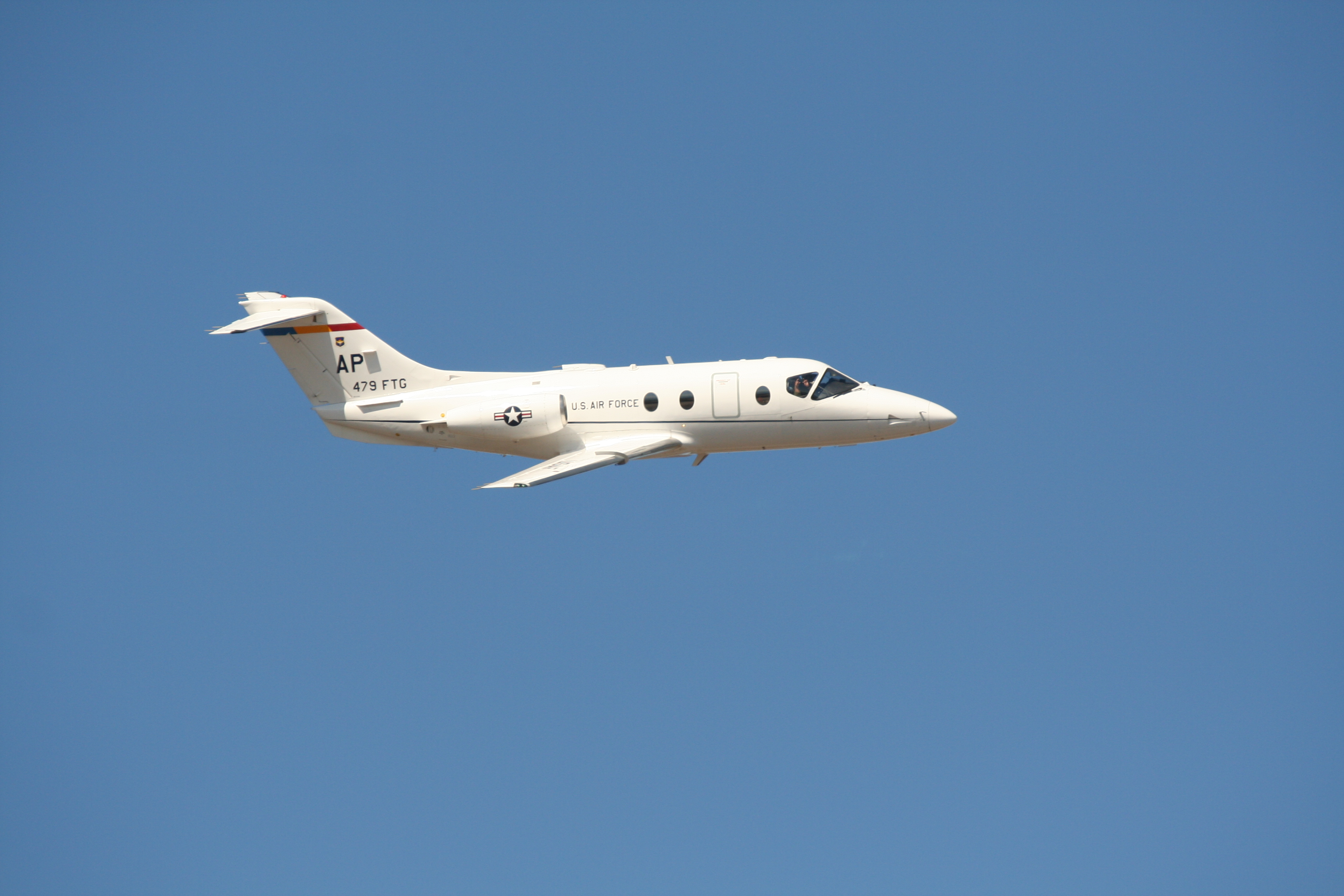 NAS Pensacola Air Show 2011 US Air Force Beech T-1A Jayhawk reg unknown s/n unknown